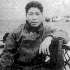 Japanese lieutenant Masaharu Suganami, fighting squadron commander of the air carrier Soryu at the Battle of Midway